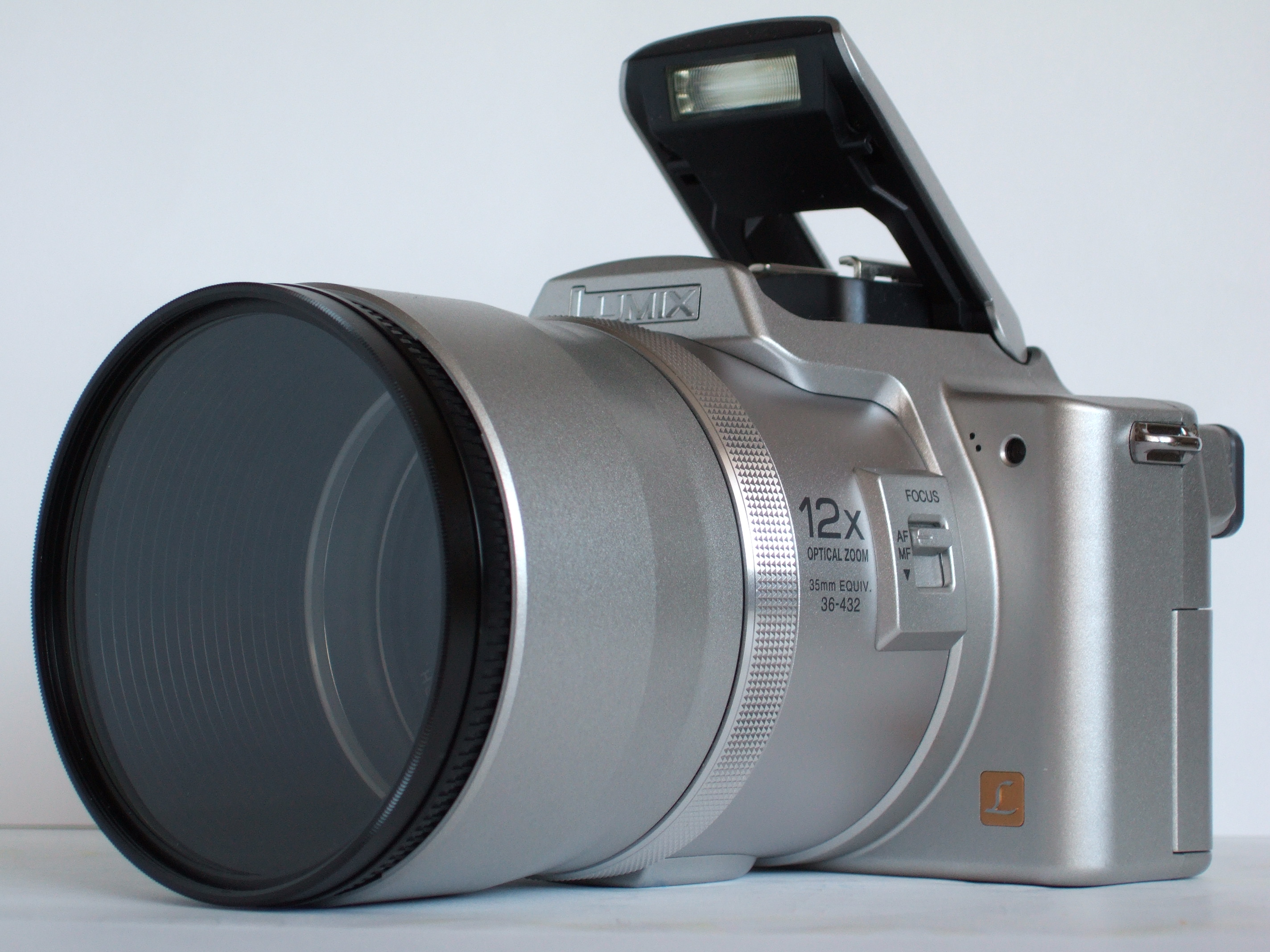 The Panasonic Lumix DMC-FZ20 with Lens Hood Adapter and 72 mm UV-Filter (inclined)